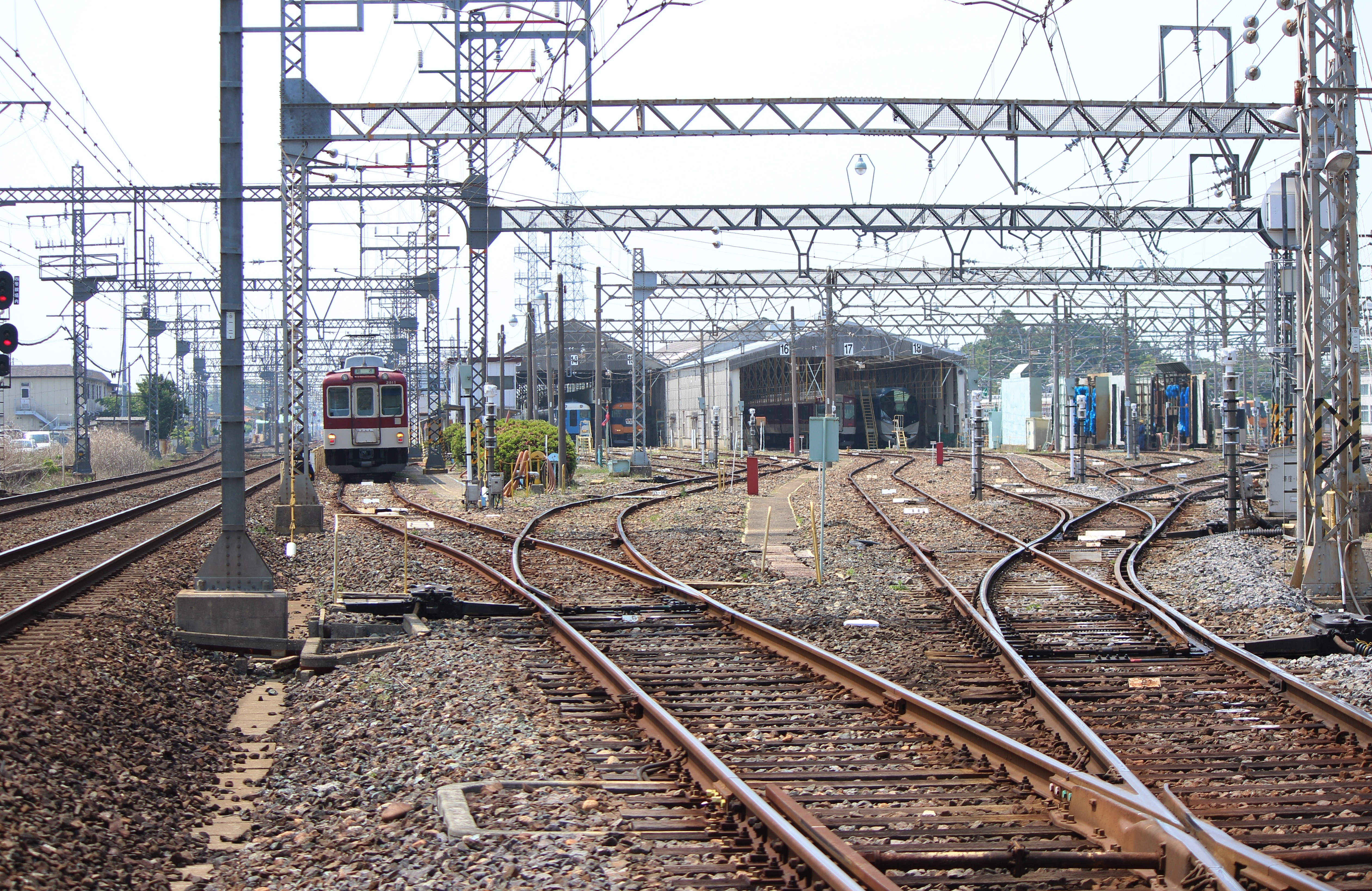 Kintetsu Myojo Inspection Depot